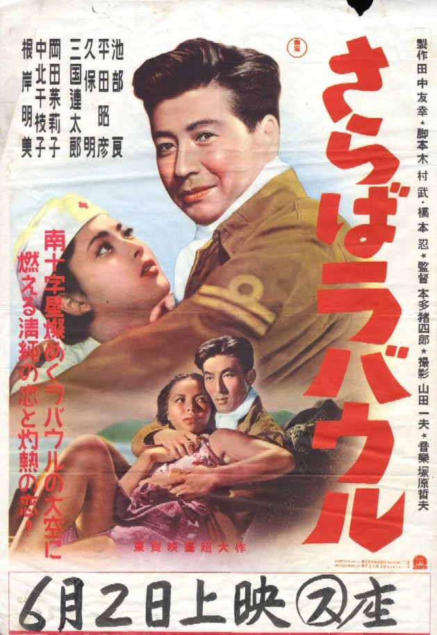 Japanese movie poster for 1954 Japanese film Farewell Rabaul (さらばラバウル, Saraba Rabauru)